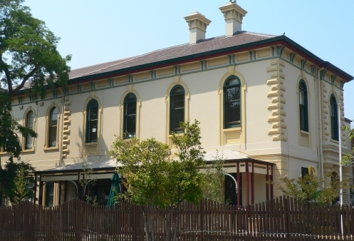 St Michael's Grammar buildings from Marlton Crescent. St Kilda, Victoria.